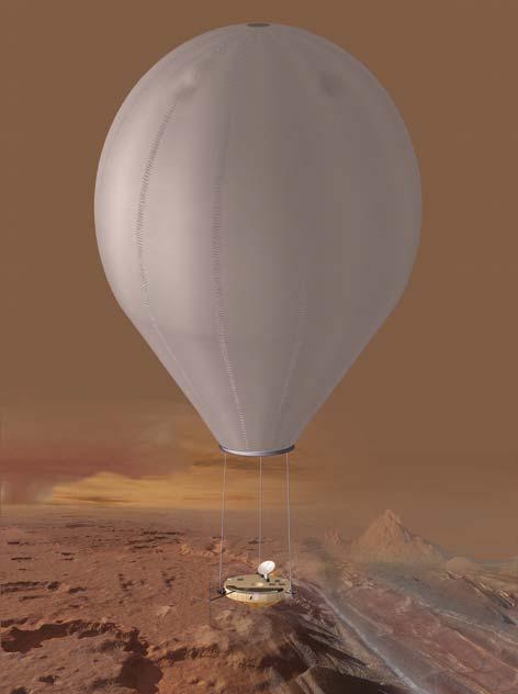 The montgolfière, which is part of the proposed Titan Saturn System Mission slated for launch in 2020. Around 2030 it is slated to enter Titan's atmosphere and circumnavigate the moon for six months.